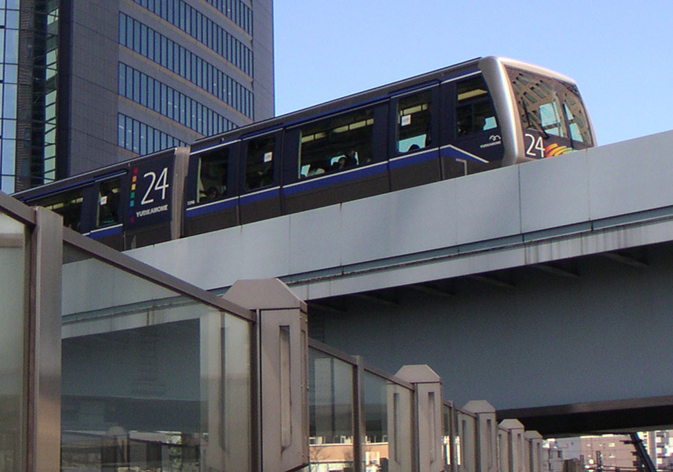 Yurikamome train, near Shiodome Station